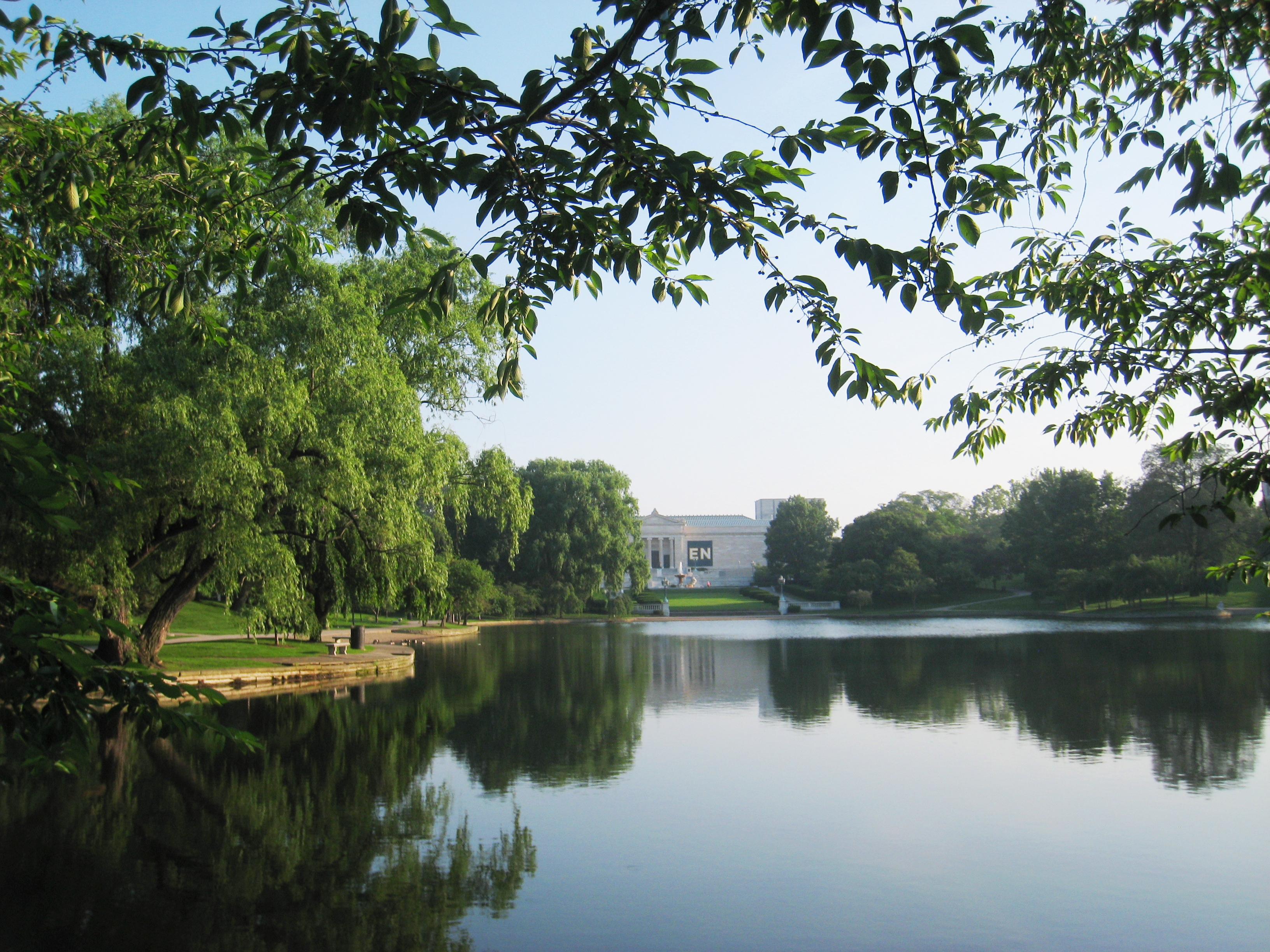 Lagoon view, Cleveland Museum of Art, Cleveland, Ohio, USA.